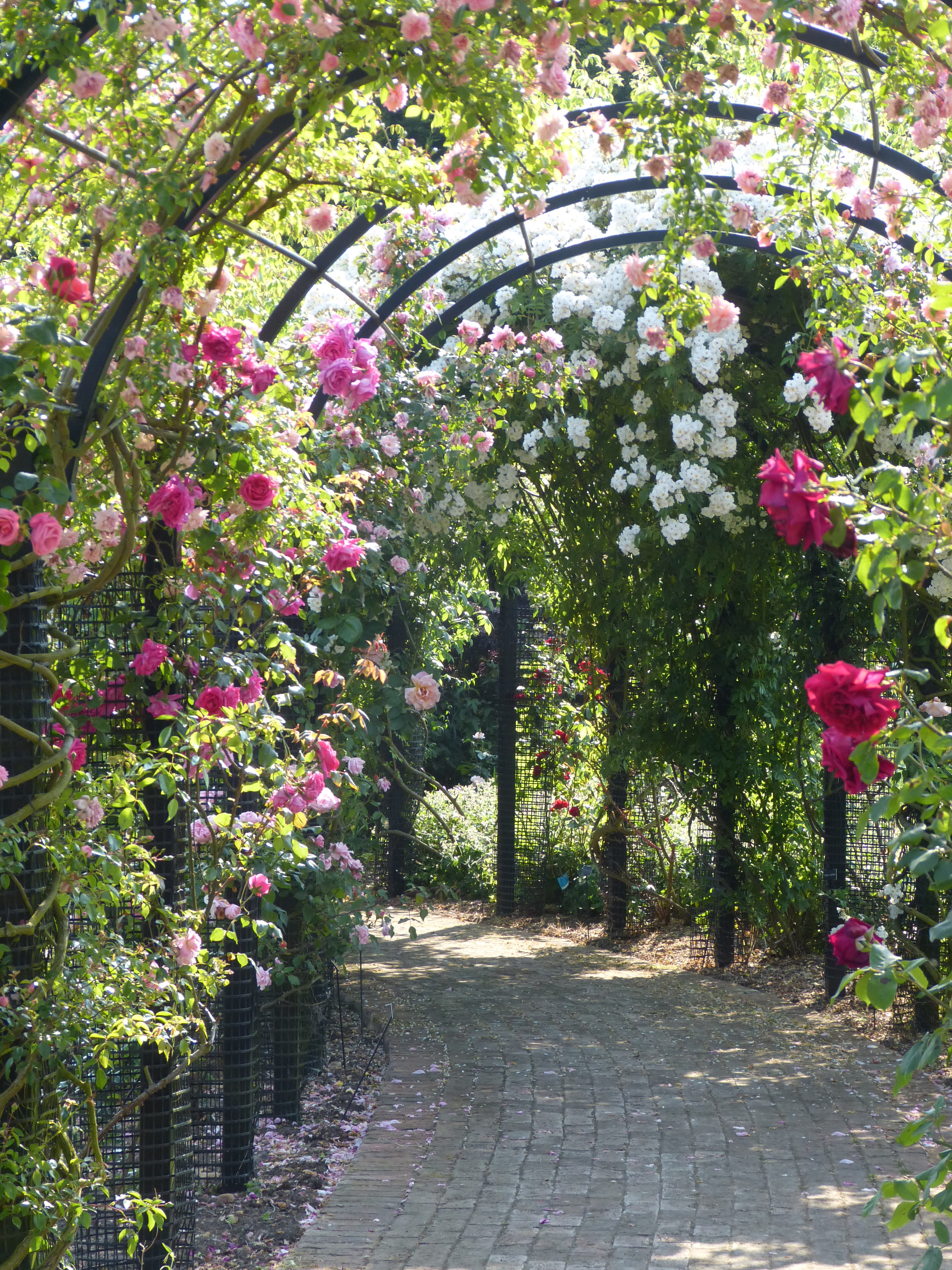 Rose Arch Pergola at Gardens of the Rose, RNRS